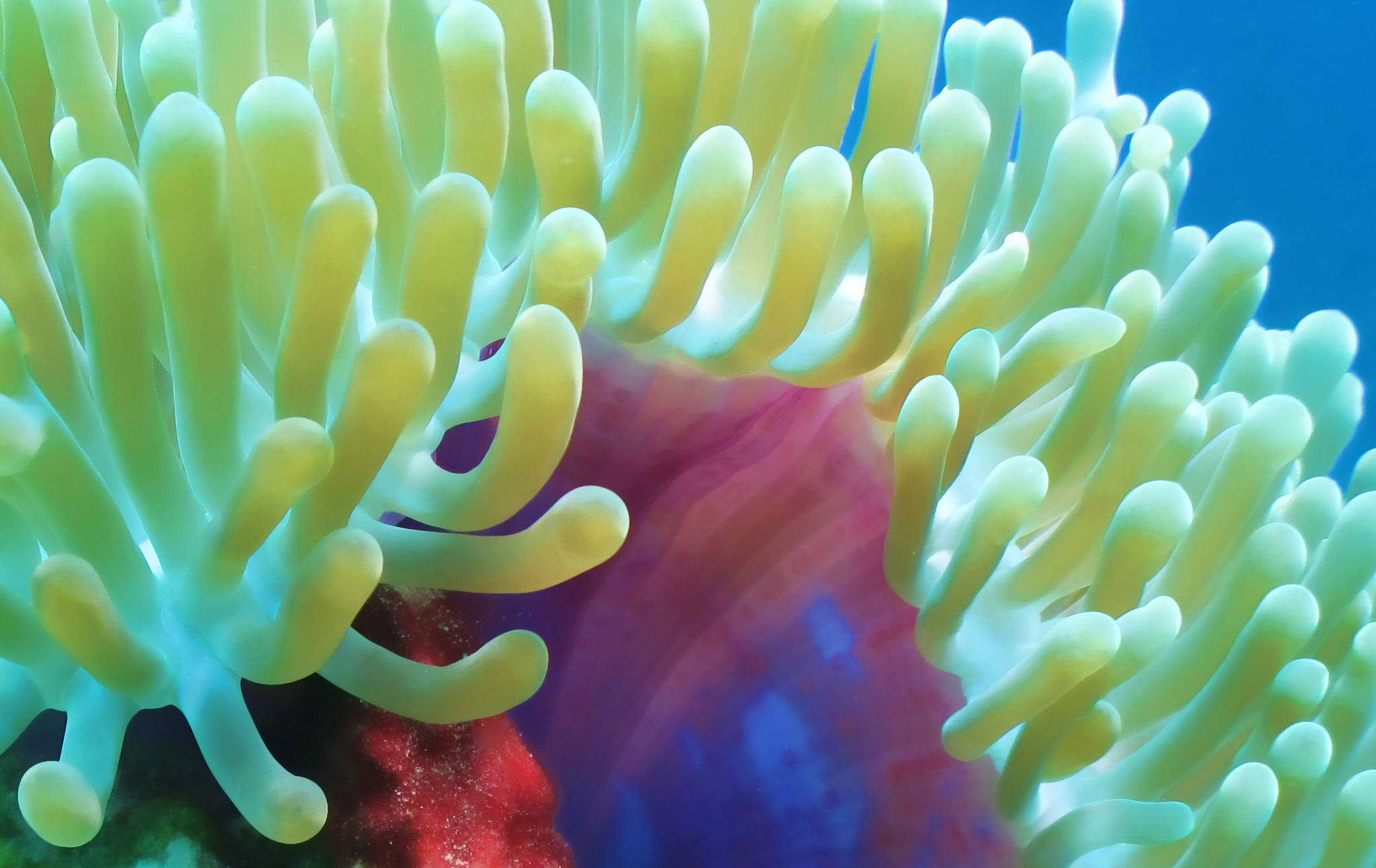 The delicate structure and lovely colours of the Magnifient Sea Anemone. Taken at Madivaru Manta Point, Maldives.